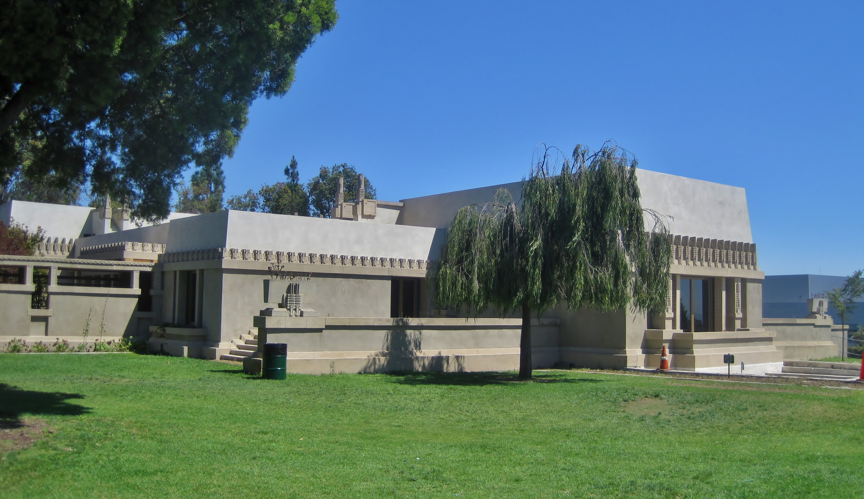 The Aline Barnsdall Complex in Los Angeles, a national landmark (1922). Barnsdall was the heiress to Theodore Newtown Barnsdall, who made his fortune during the Pennsylvania oil rush. Aline dedicated her life to radical causes and art, supporting Emma Goldman and producing an independent theater in Chicago. She commissioned Frank Lloyd Wright to design a new house for her. Furthermore, she asked that it be a capable complex to house her needs for her theatrical community. Wright was busy with the Imperial Hotel in Japan at the time and wasn't able to supervise contruction. The house quickly exceeded cost expectations and Barnsdall grew weary of the project. Barnsdall gave the house away after only a few years, donating it to the California Art Club. Known to most of the world as the Hollyhock House, it is perhaps Wright's third most famous house commission after Fallingwater and the Robie House. Despite its gorgeous architecture, the house was rather impractical.